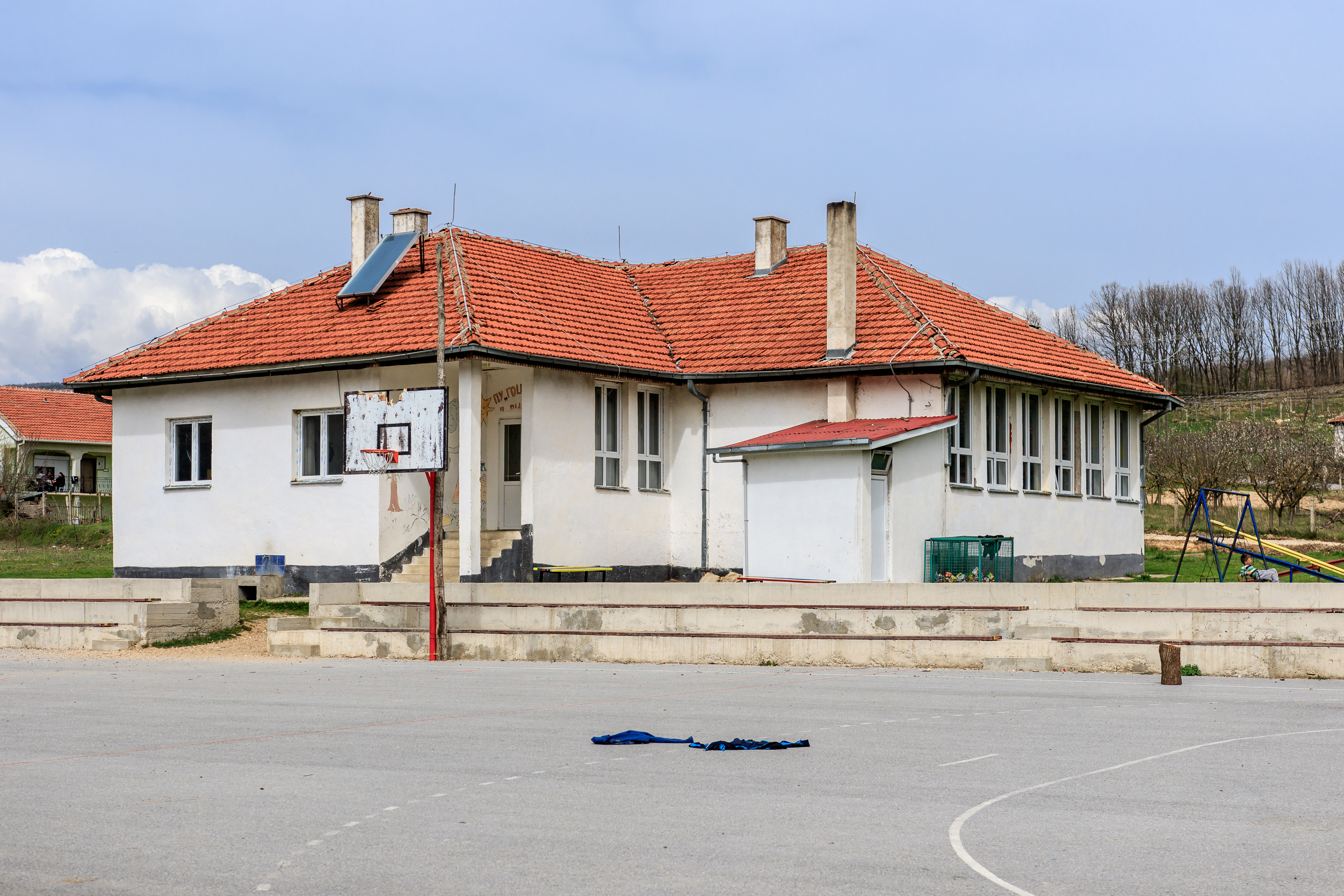 View of the primary school in the village Dolni Lipoviḱ